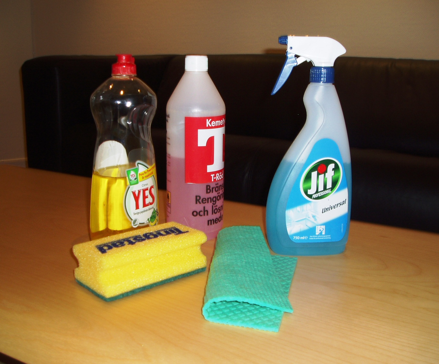 Cleaning tools